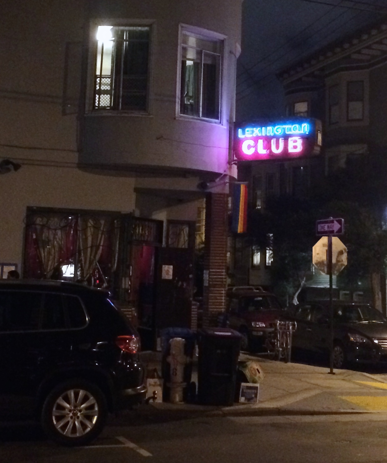 The Lexington Club, lesbian bar in the Mission District in San Francisco, at 3464 19th Street.